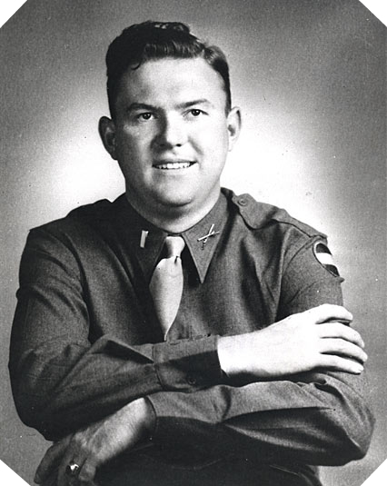 Jimmie W. Monteith, posthumous recipient of the Medal of Honor